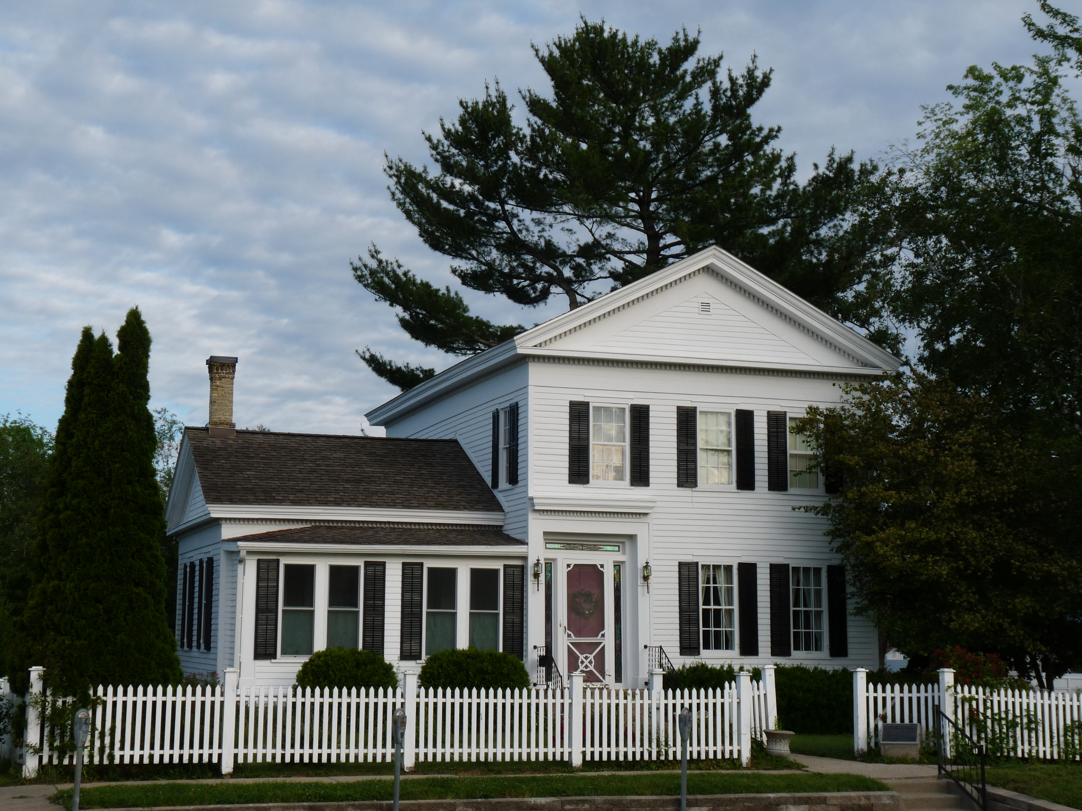 Antebellum home built in 1863 by Jacob Weber, the first postmaster of Kilbourn City. H. H. Bennett, the photographer, bought the house in 1891 and his family lived there until 1971. Today the house is listed on the National Register of Historic Places.